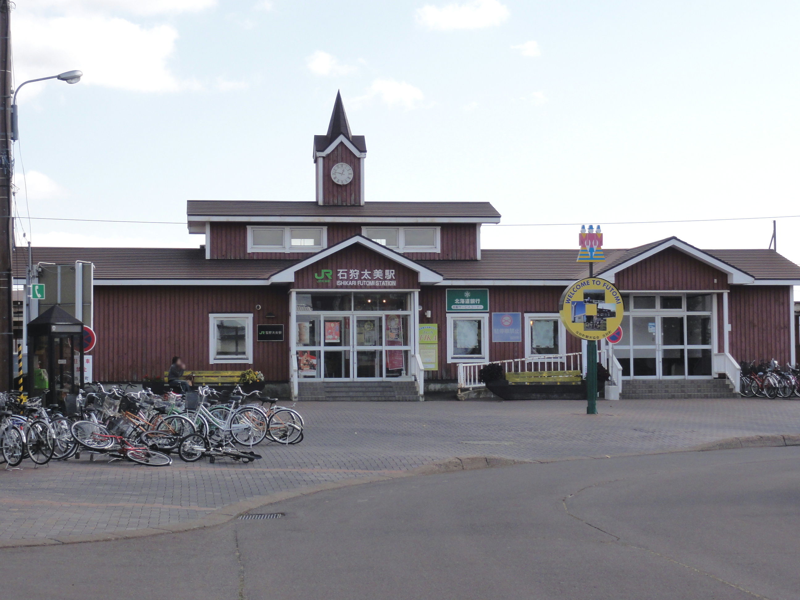 Ishikari-Futomi Station on the Sasshō Line in Tōbetsu, Hokkaido, Japan